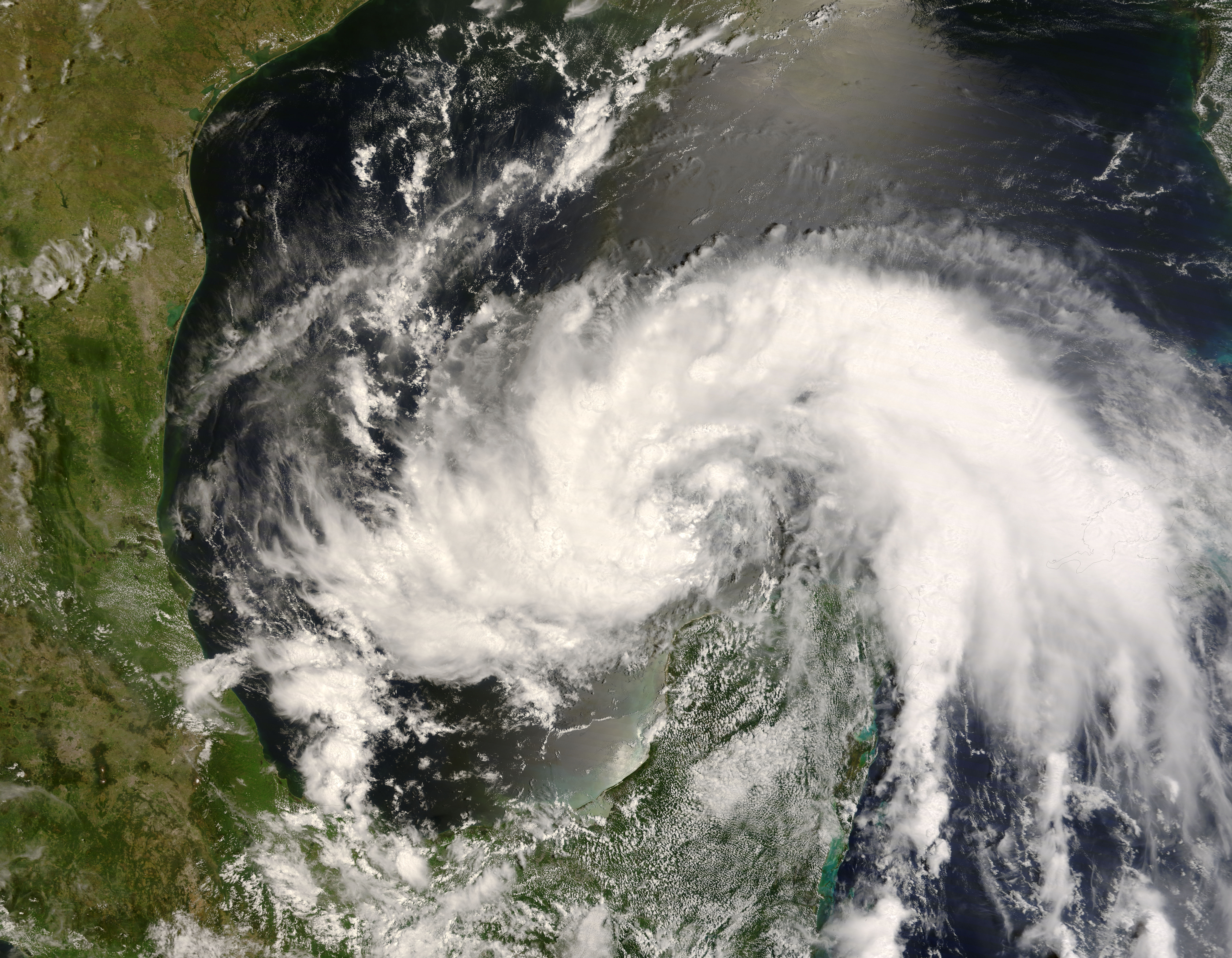 TS Dolly over Gulf of Mexico